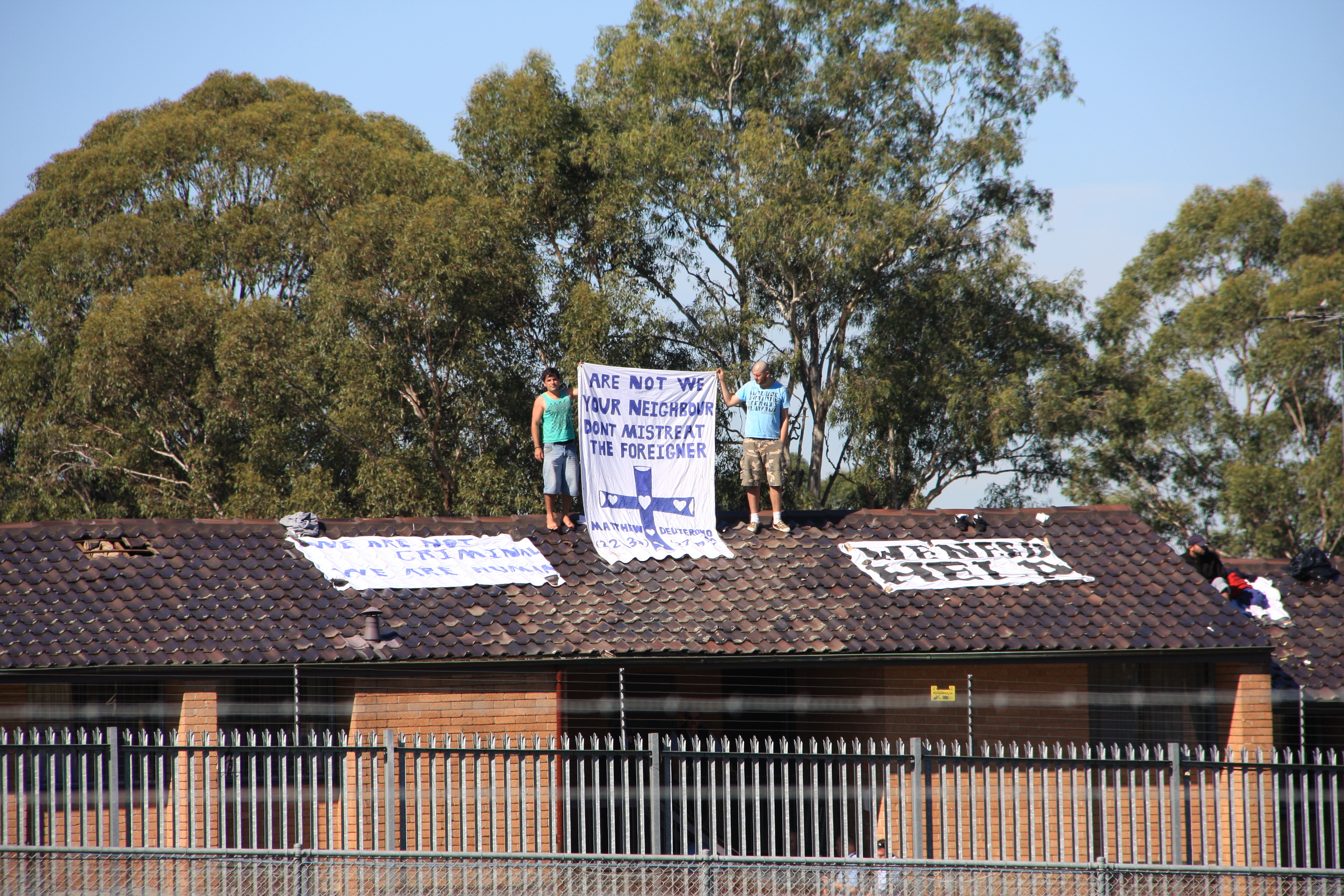 Asylum seekers on the roof of Villawood Immigration Detention Centre, Sydney